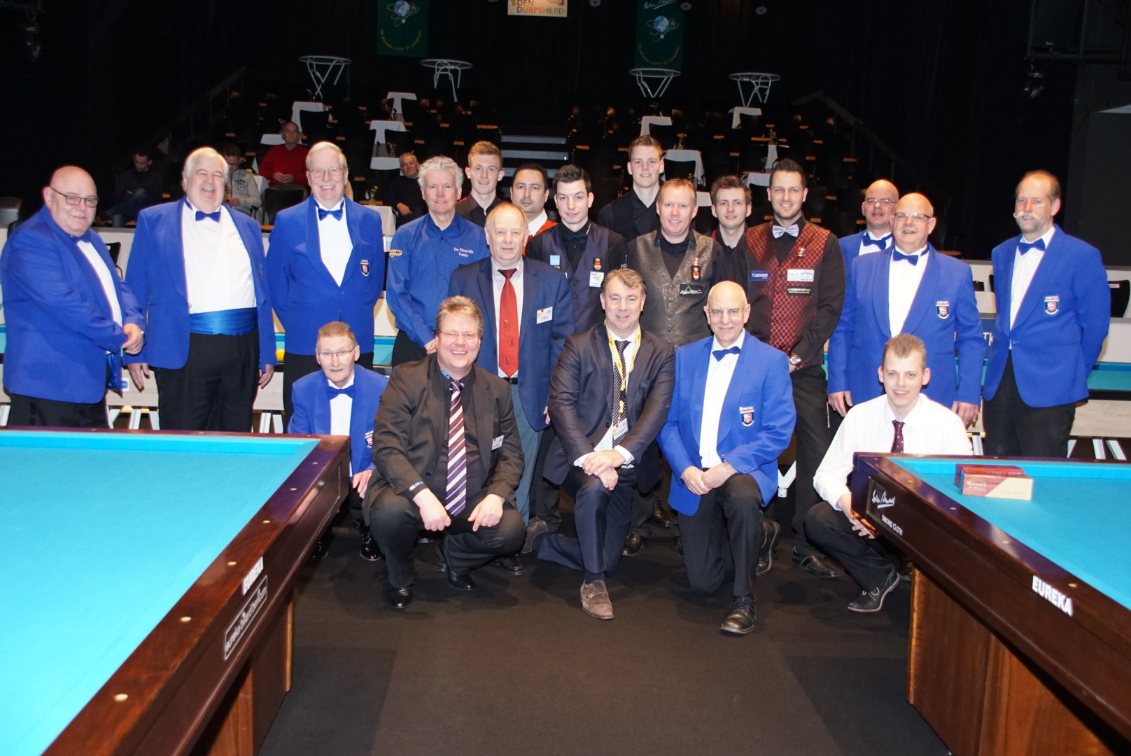 Deelnemers, arbiters en organisatie NK Biljartvijfkamp 2018